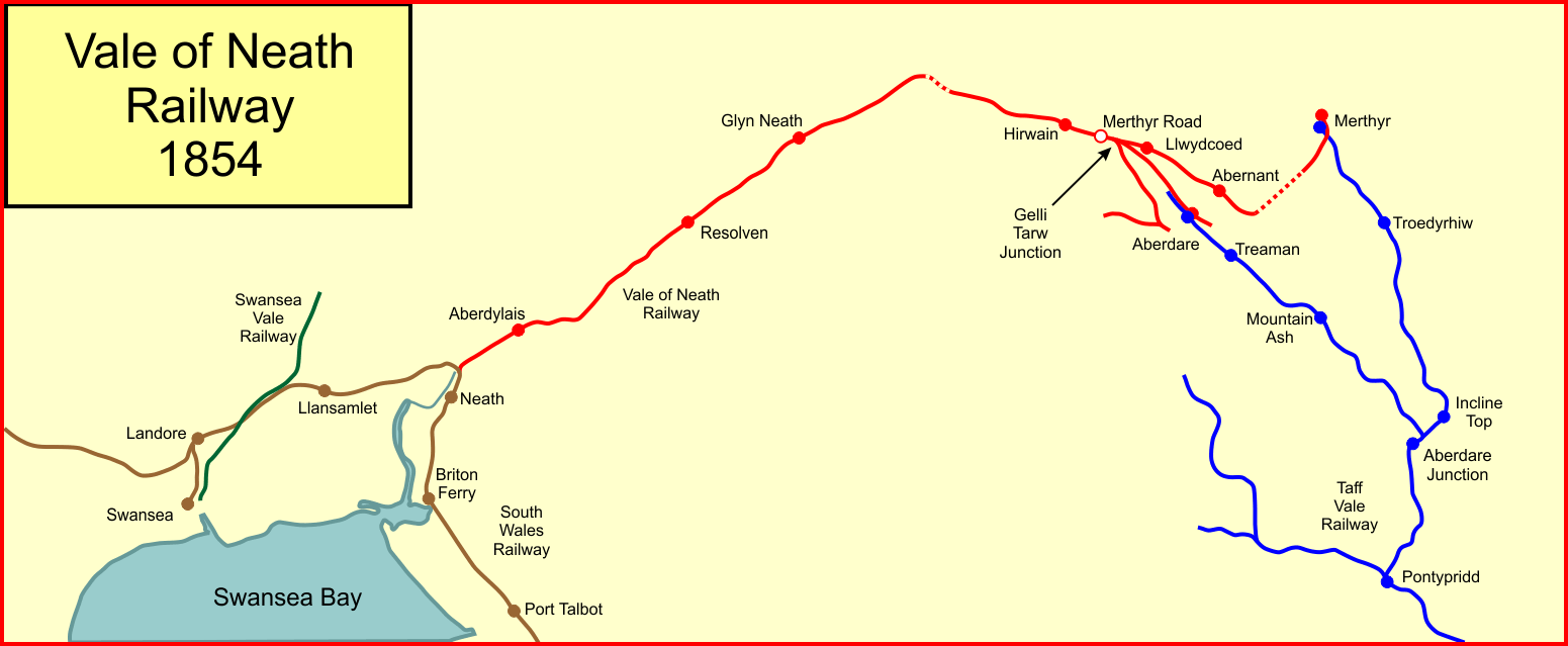 System map of the Vale of Neath Railway, Wales, in 1854